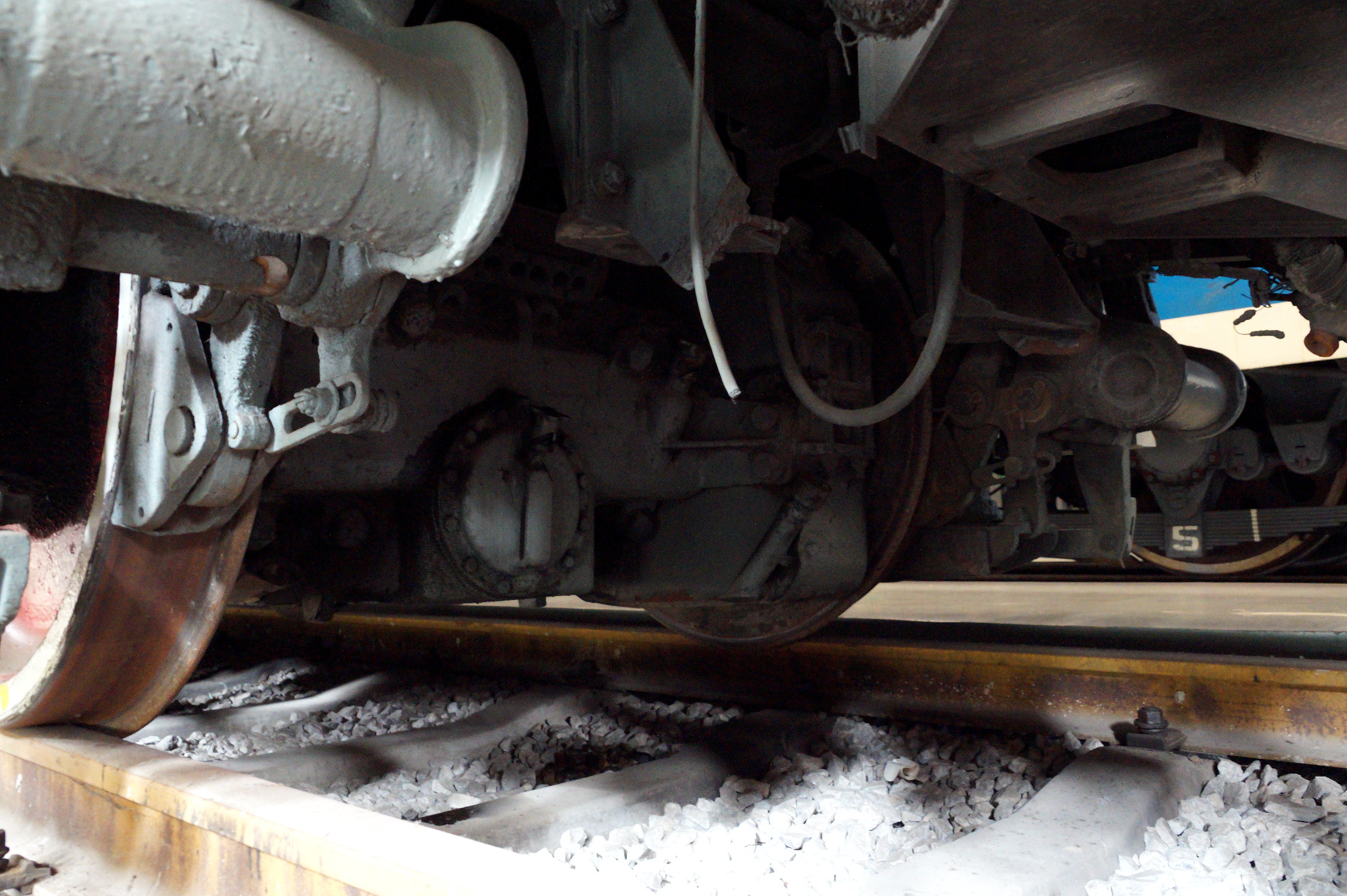 TAO-659 traction motor on a China Railways ND4 diesel locomotive